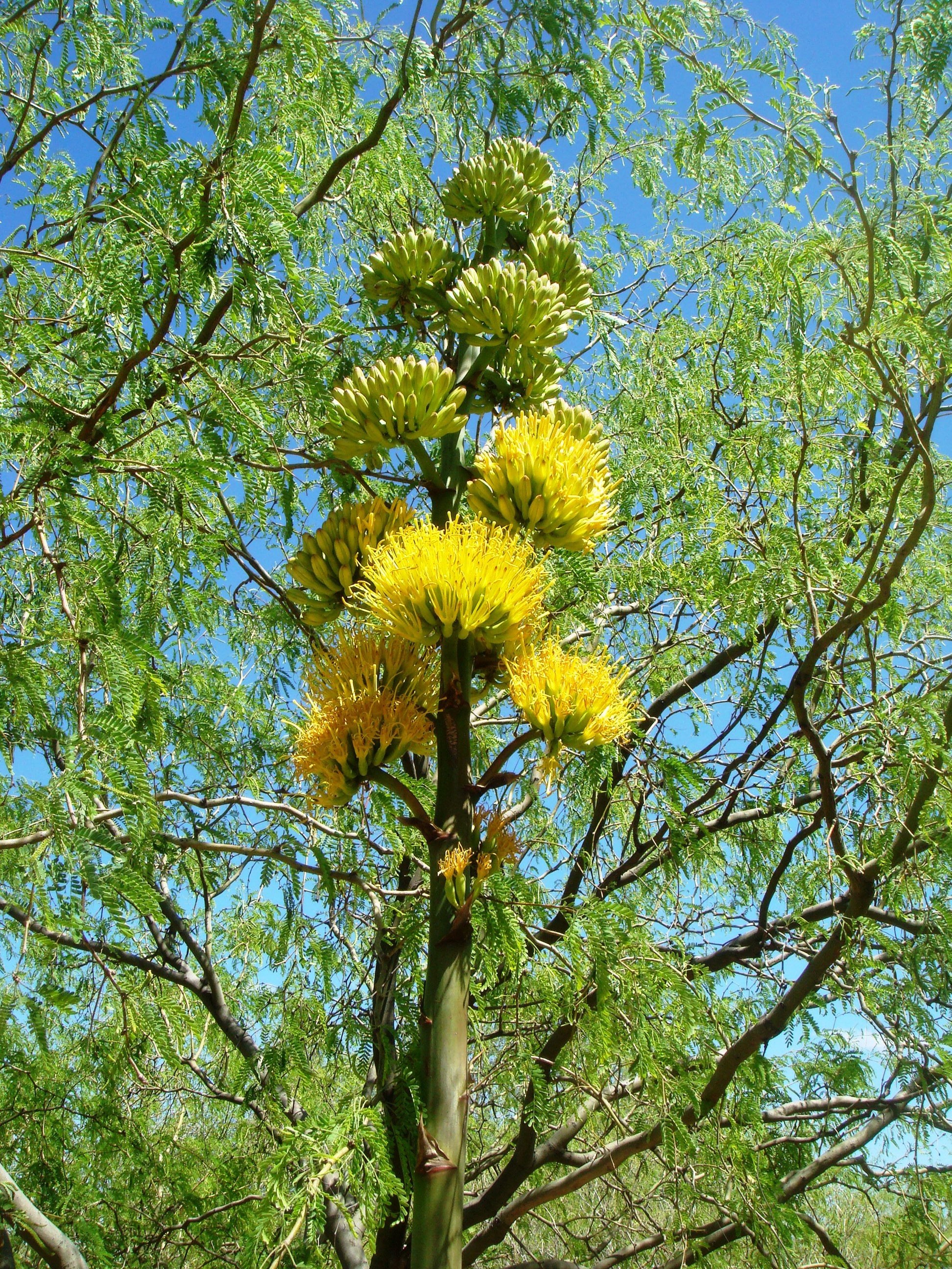 Agave chrysantha, cultivated, Desert Botanical Garden, Phoenix, Arizona